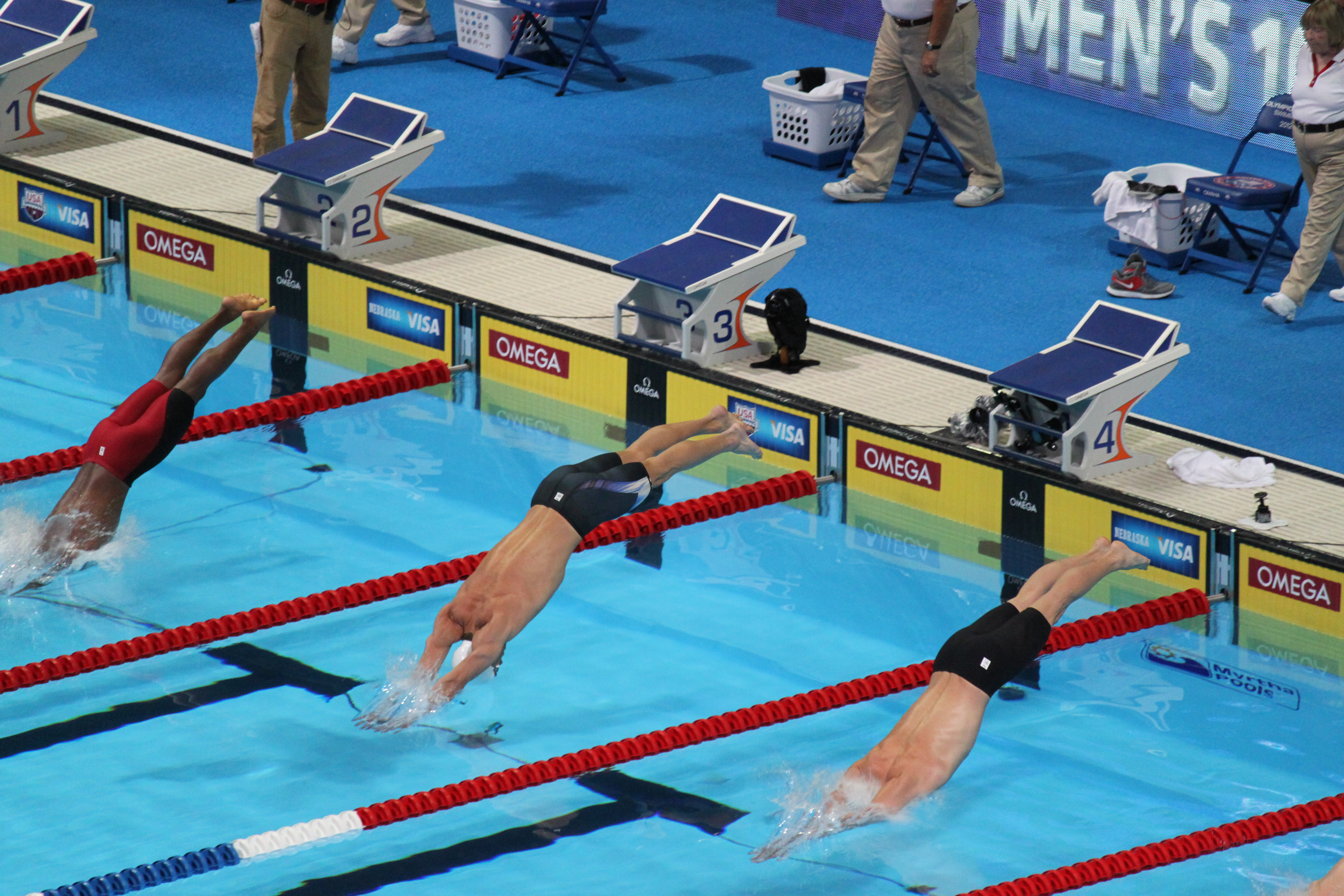 USA Swimming 2012 U.S. Olympic Team Trials - Swimming CenturyLink Center Omaha, Nebraska June 30, 2012 Giles Smith - University of Arizona Michael Phelps - North Baltimore Aquatic Club Davis Tarwater - SwimMAC Carolina